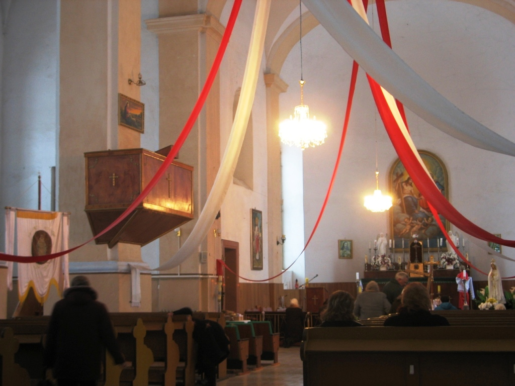 Church of Holy Trinity (Radashkovichy, Belarus)